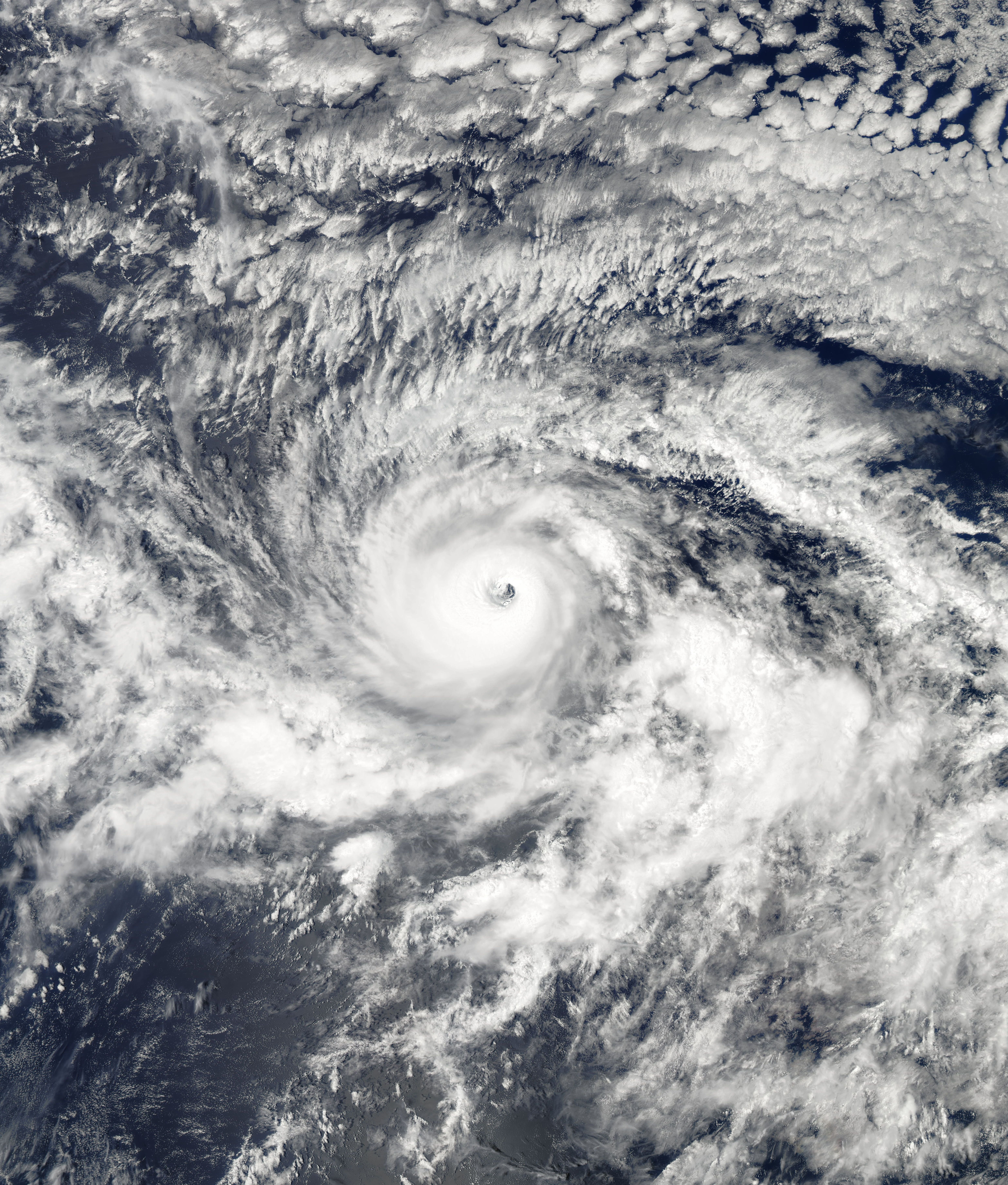 Hurricane Kenneth near peak intensity on September 18